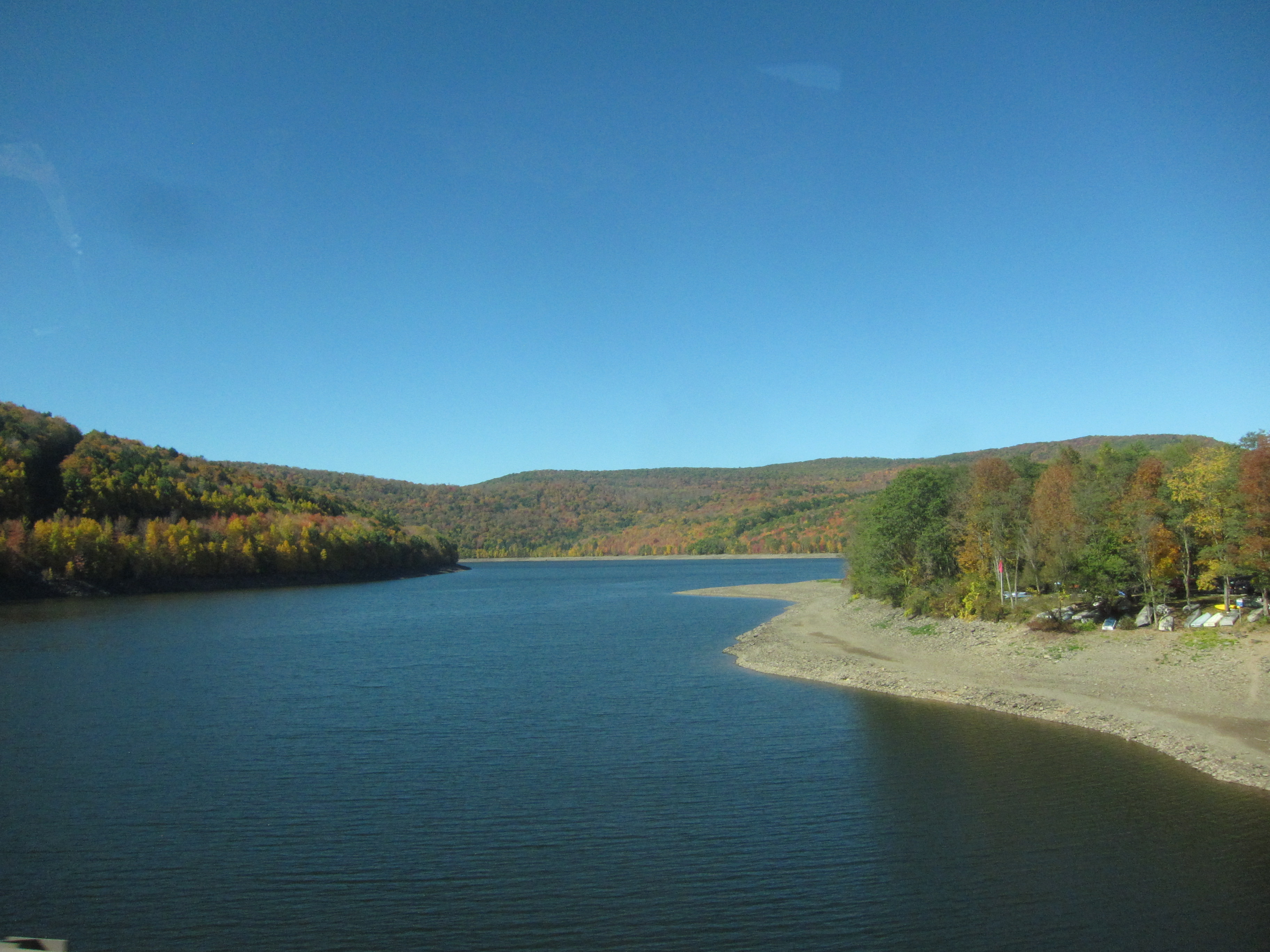 The Pepacton Reservoir near Downsville, NY, from the Route 30 bridge.